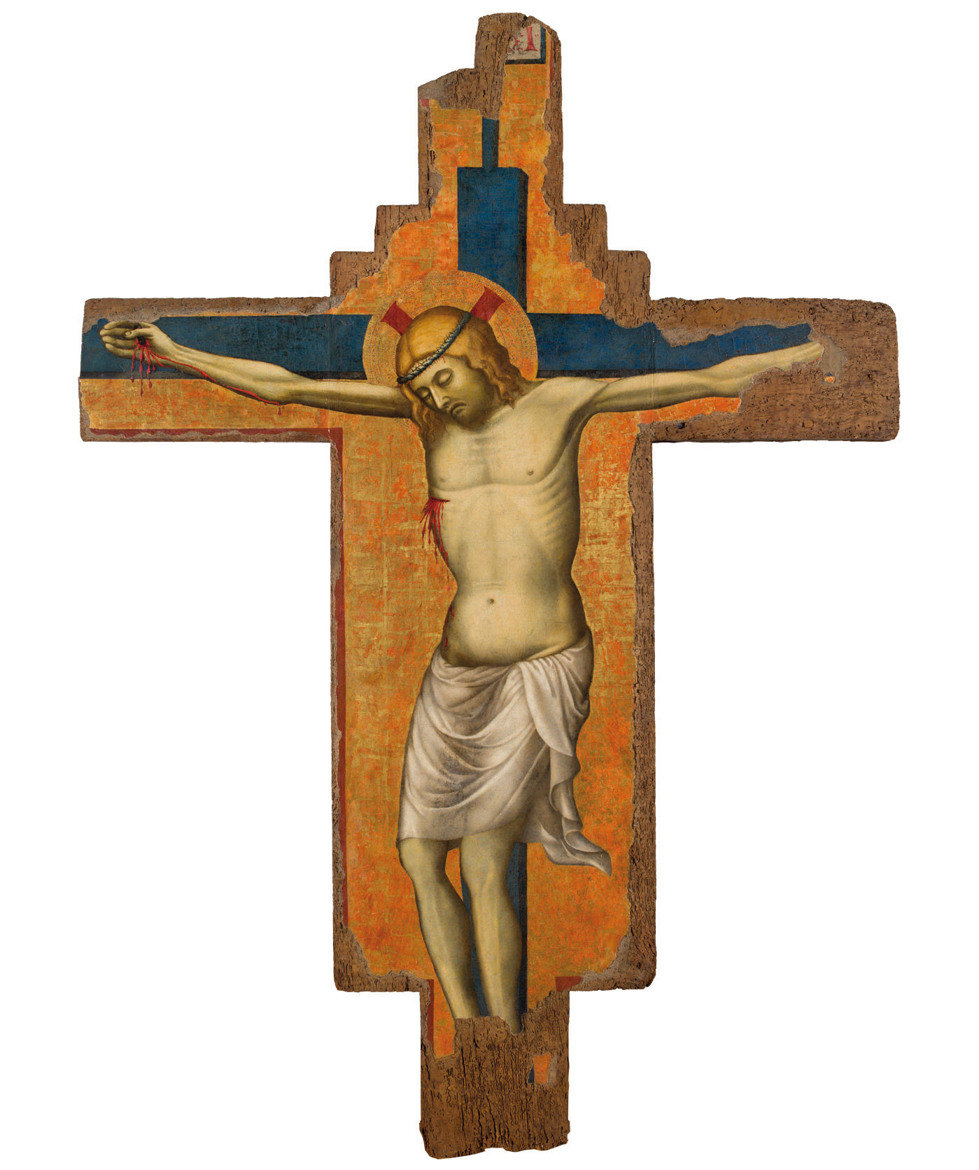 NIccolo Semitecolo, Crocifisso, Jesolo, Chiesa S. Giovanni Battista.